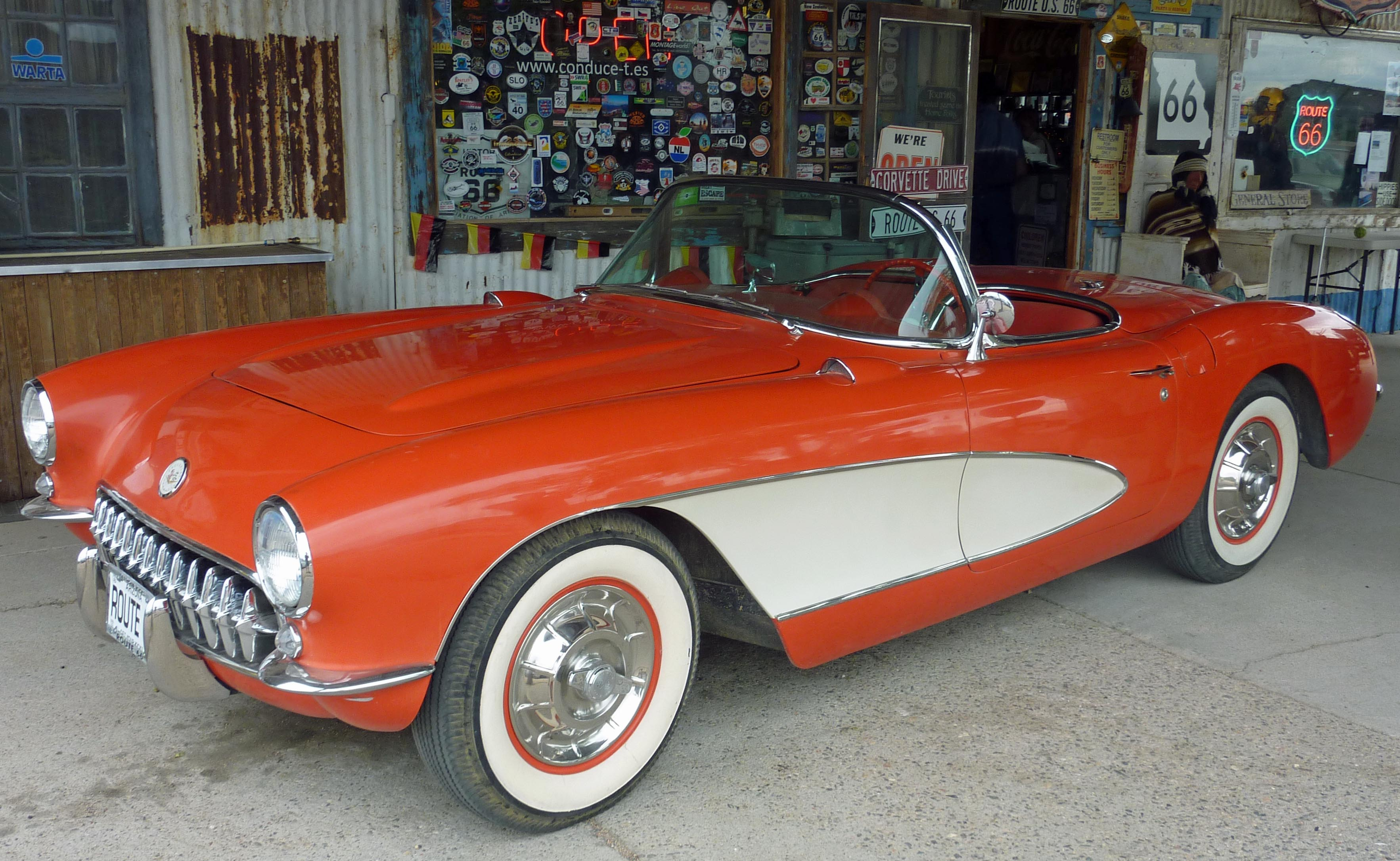 We took a section of the fabled Route 66, from Kingman to Seligman, Arizona, on a cloudy day in July 2011. Nice drive - a lot of nothingness and empty space along the way, other areas were very scenic, and then others were downright tacky - my kind of places! It's a fun drive - if you have a chance, go for it!